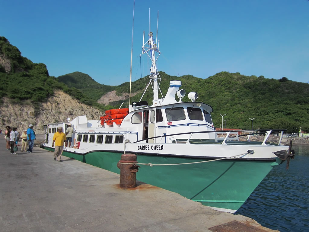 The "Caribe Queen" shuttles passengers between Antigua and Montserrat several times a week.